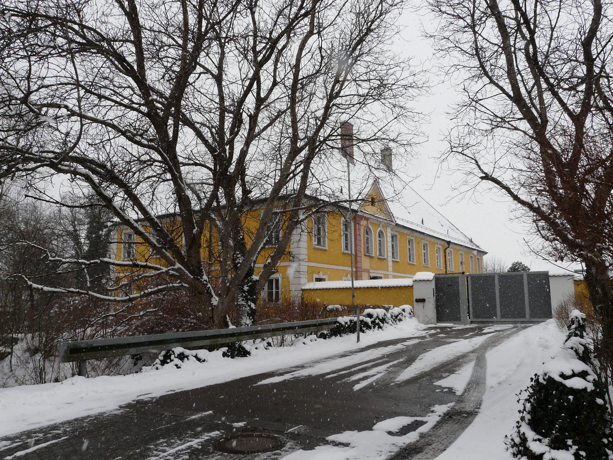 Augsburger Str. 7 in Buchloe